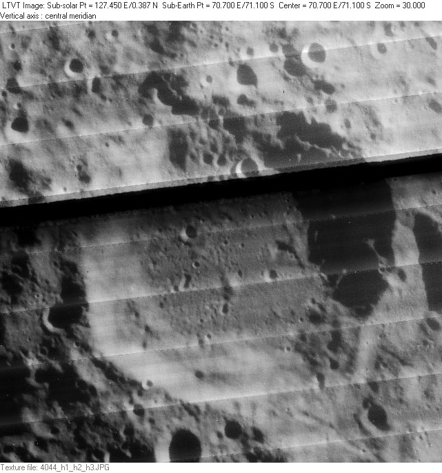 Crater Pentland. Detail from Lunar Orbiter IV-094H. High resolution scans from the USGS Lunar Orbiter Digitization Project remapped to a north-up aerial view by LTVT.